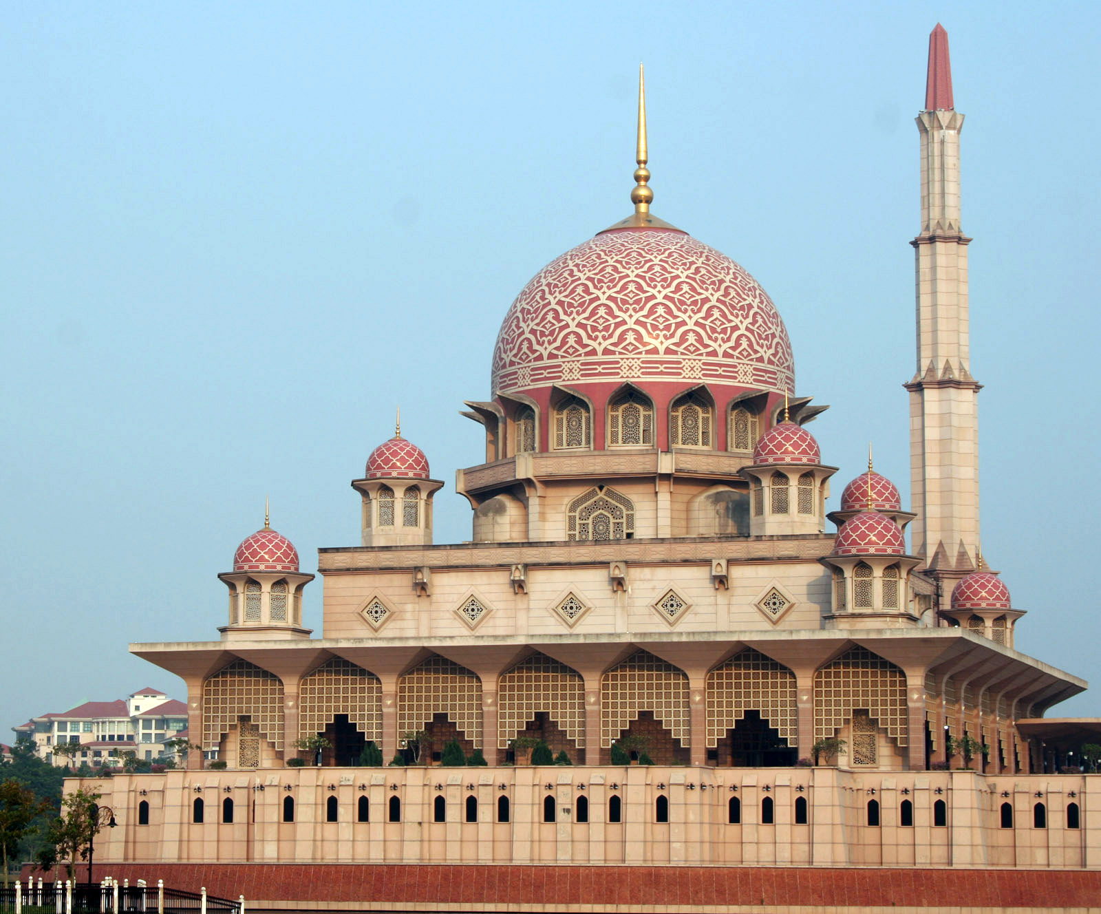 The mosque of Putrajaya, Malaysia, shortly before sunset.